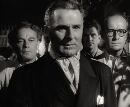 Alexander Scourby (foreground) in Affair in Trinidad (1952) - trailer (cropped screenshot)